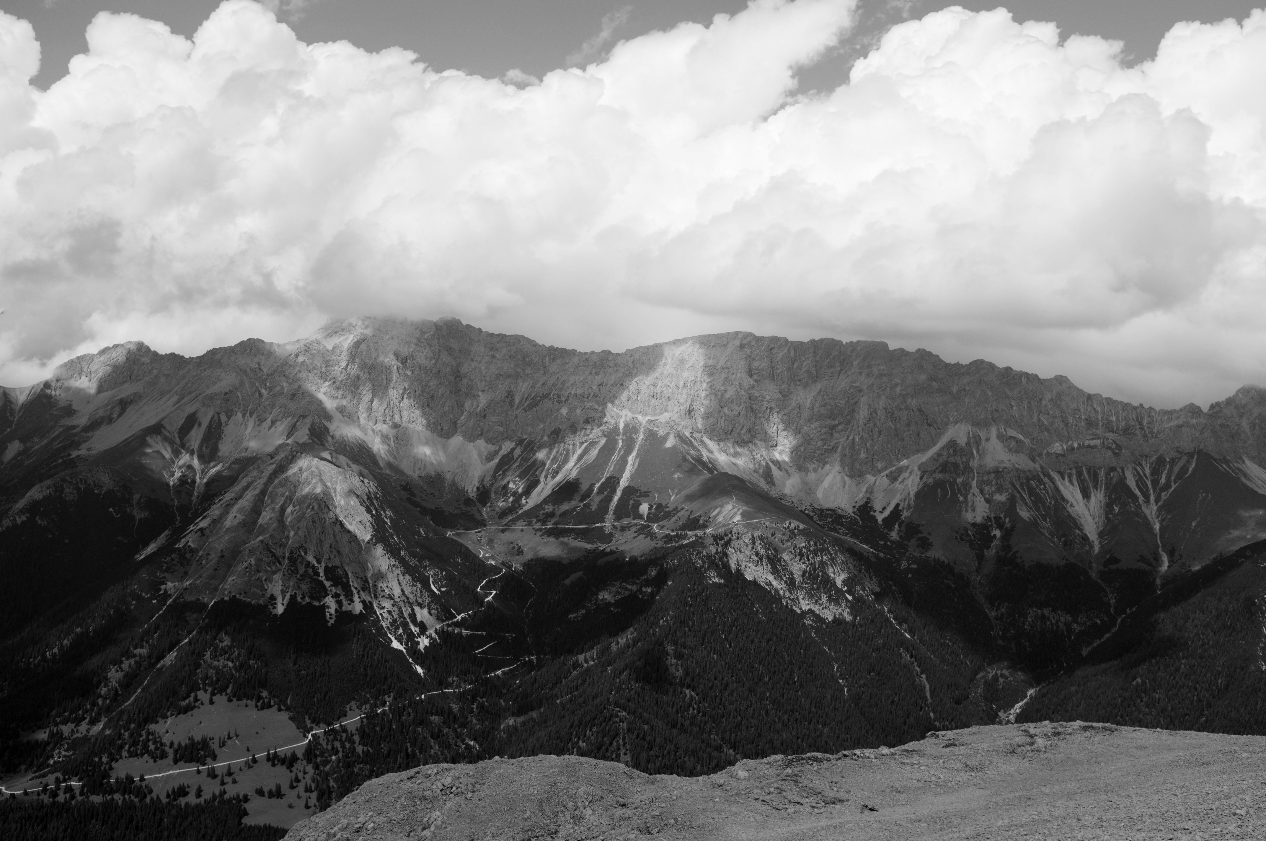 Hinterreintalschrofen seen from the western summit area of Hohe Munde. Hochwanner on the left in clouds, further left in the front the Predigtstuhl.